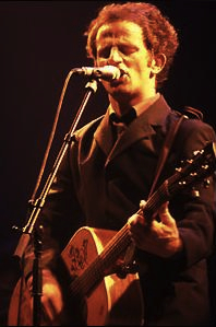 Mathias Malzieu - Le Splendid Lille (2003 March)